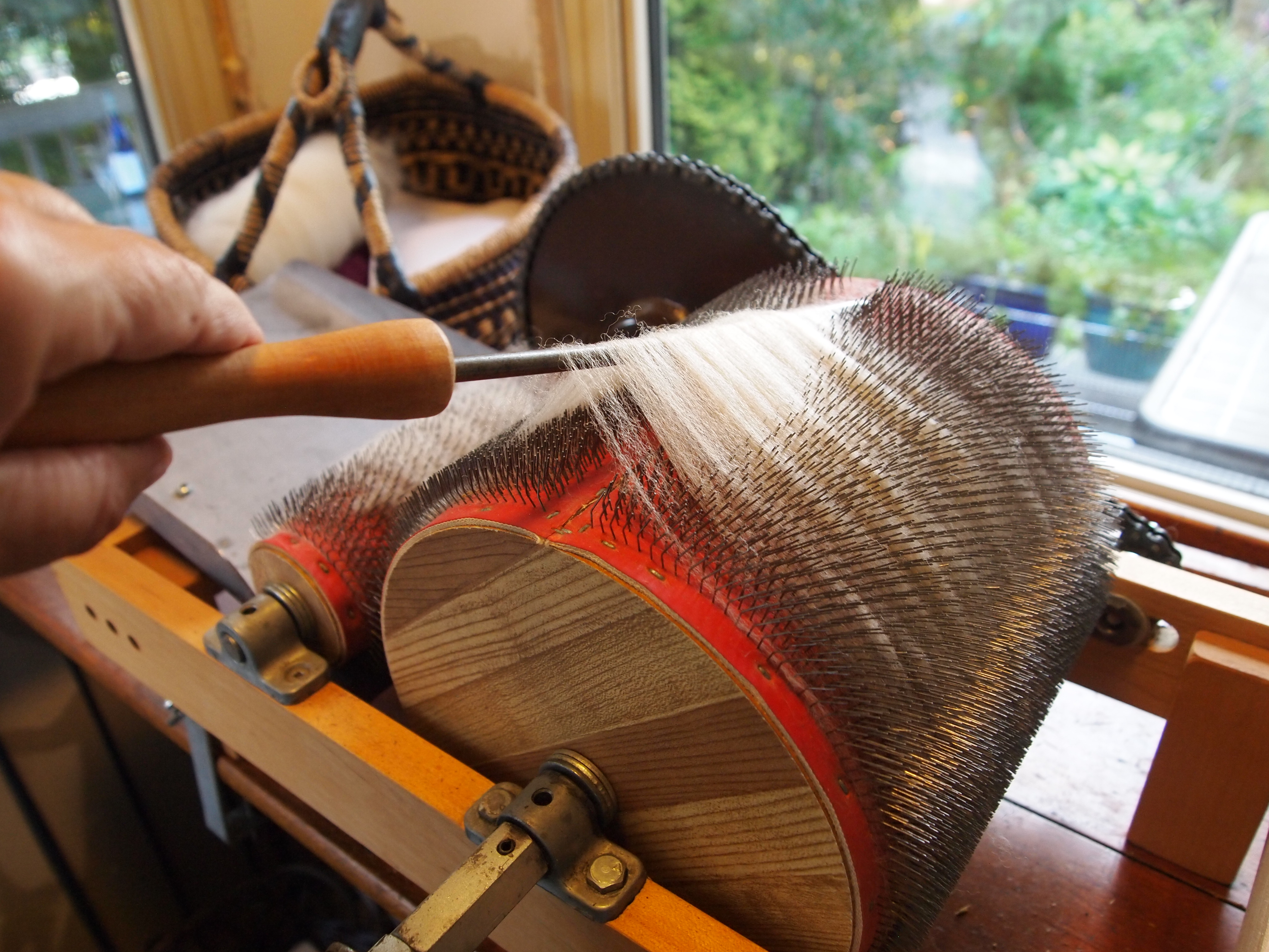 Doffer being used to remove wool from a small hand-carder